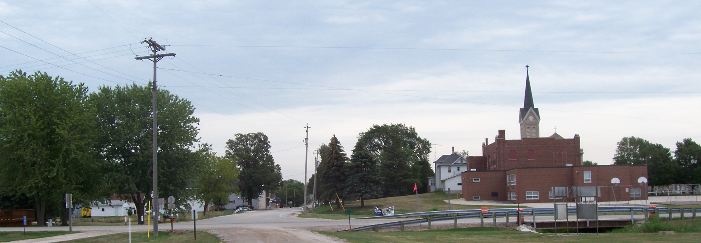 Looking east at Johnsburg, Wisconsin(USA) from the west edge of town.